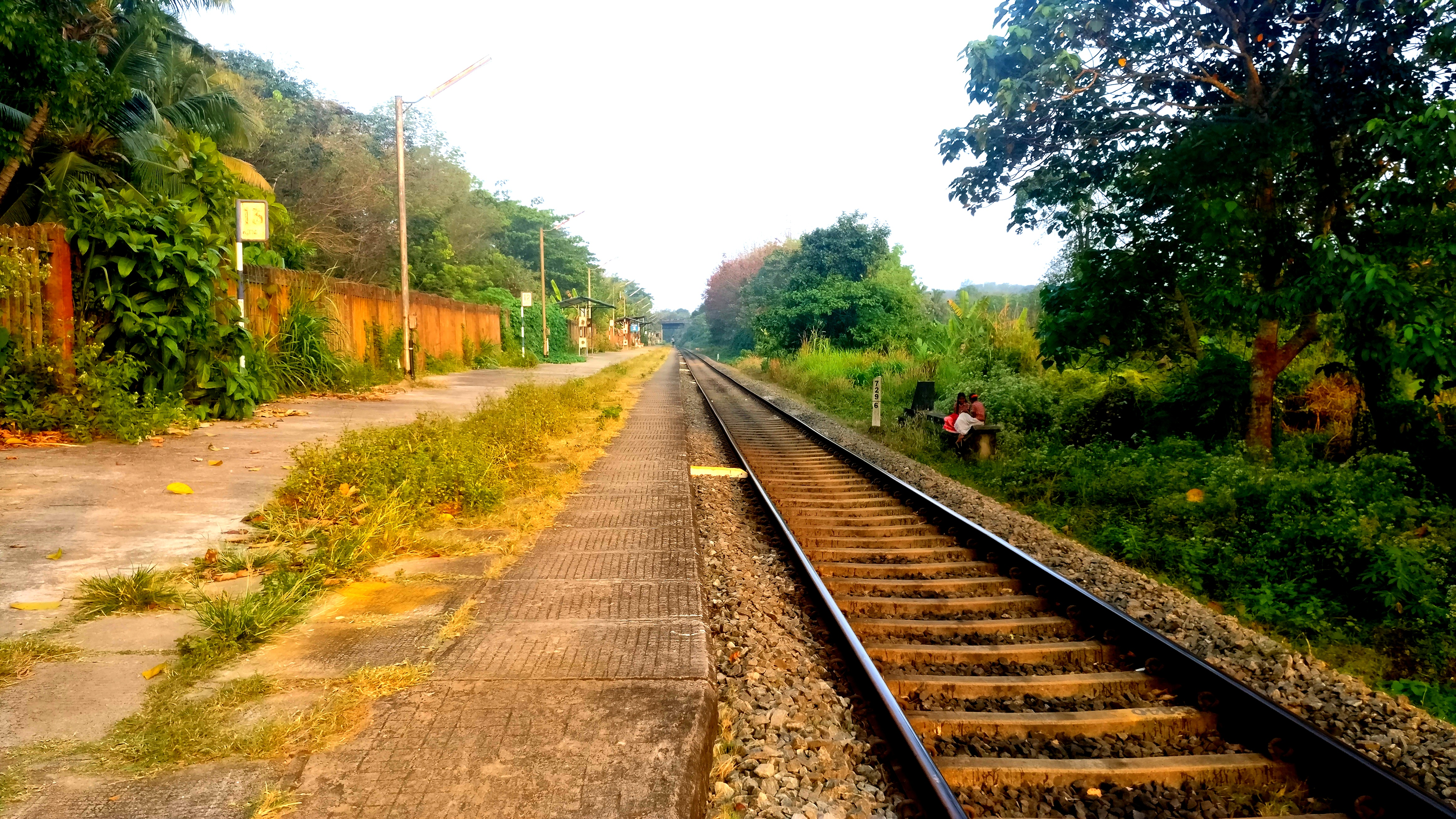 Kuri is a railway station coming in between Kottarakkara and Punalur of Kollam-Madras railway line. The line was thrown open to public on 1904